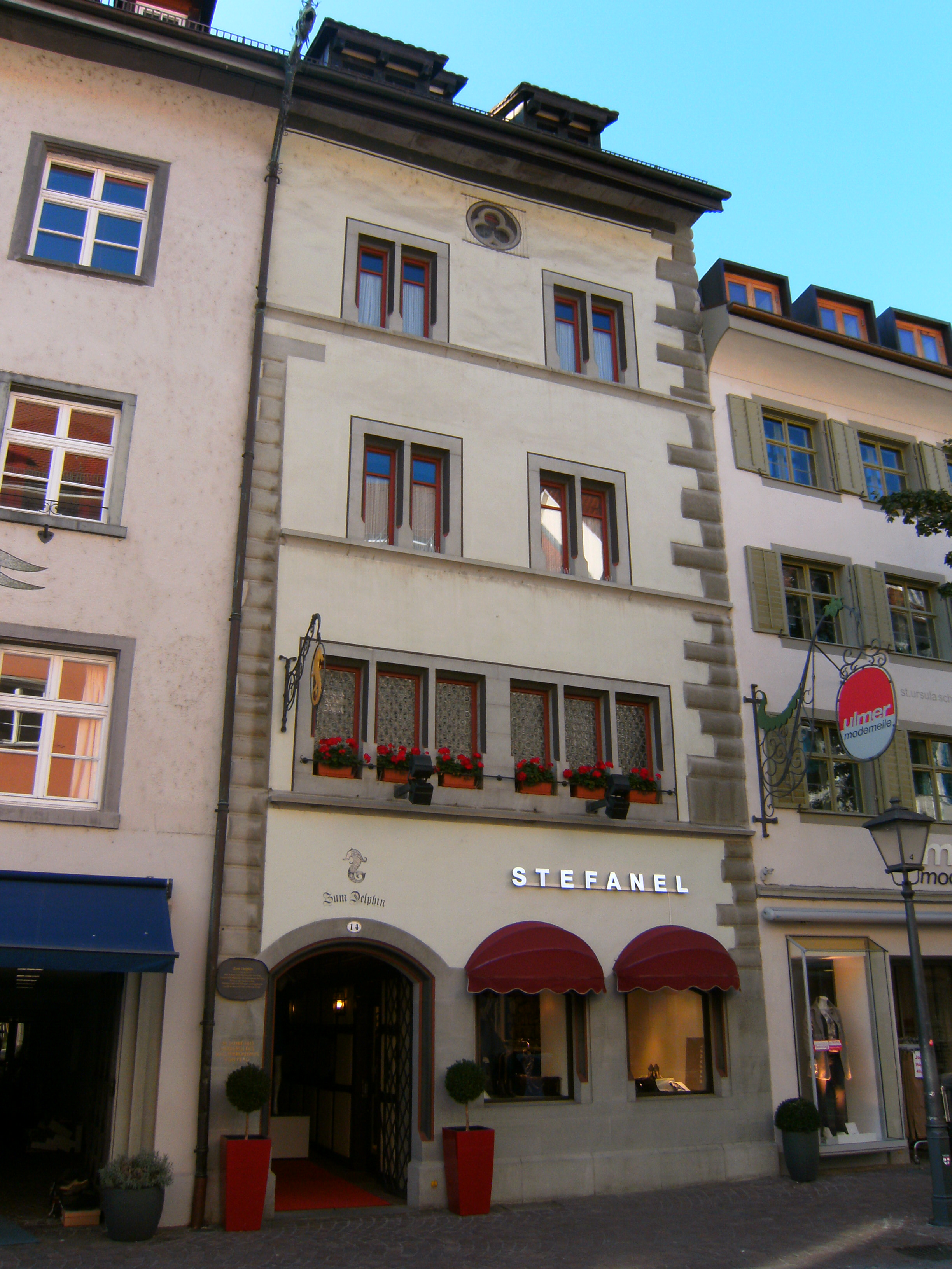 In Konstanz, Lake Constance, Germany in the street Hussenstraße 14 the house zum Delphin is located. Here stayed Hieronymus von Prag in the year 1415.